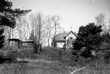 home of Helene Neumann (1874 - 1942), scientist, and her fahter, the pathologist and hematologist Ernst Neumann in Rauschen - Koenigsberg todays Svetlogorsk